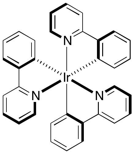 Schematic of fac-(tris-(2,2'-phenylpyridine))iridium(III)